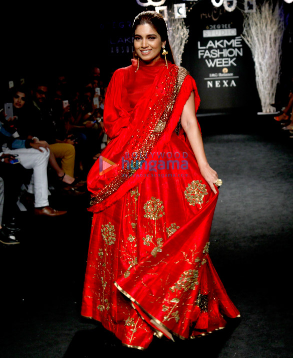 Bhumi Pednekar walks for Rucera at Lakme Fashion Week 2017